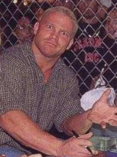 Mike Lockwood a.k.a Crash Holly in an autograph signing with Molly Holly